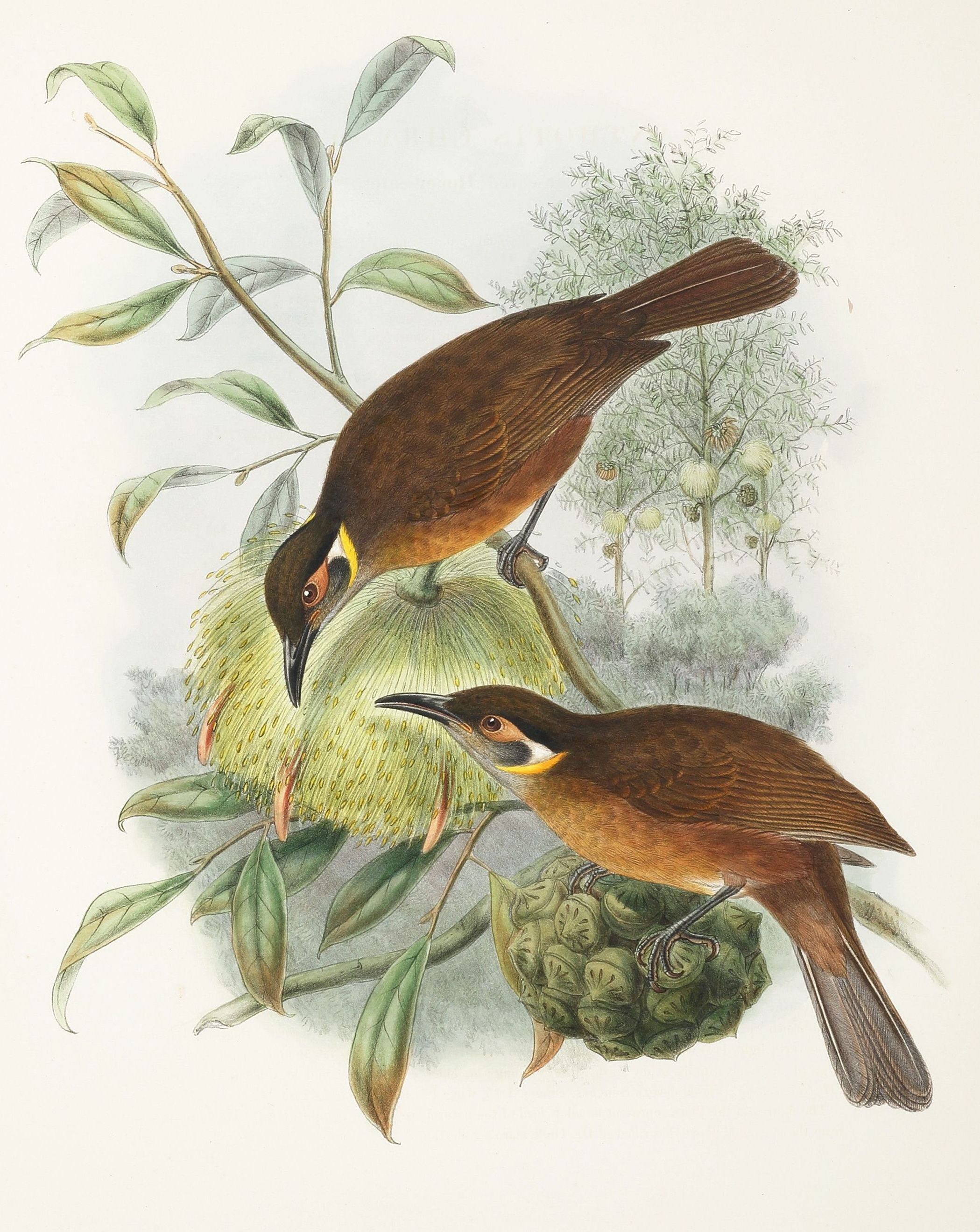 Xanthotis chrysotis = Xanthotis flaviventer - The birds of New Guinea and the adjacent Papuan islands v.3 (1875-1888)